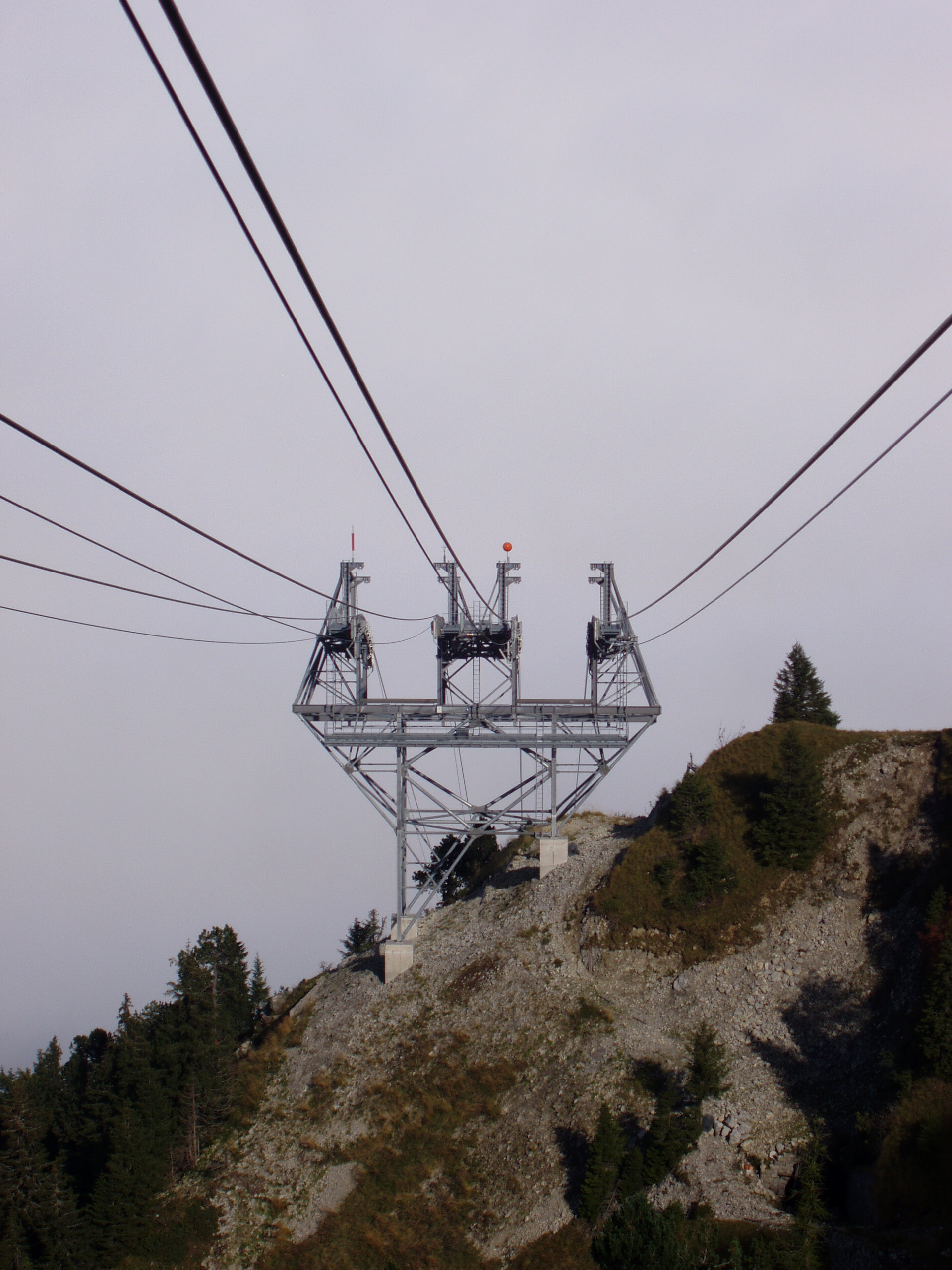 Stanserhornbahn upper pylon look from mountain station